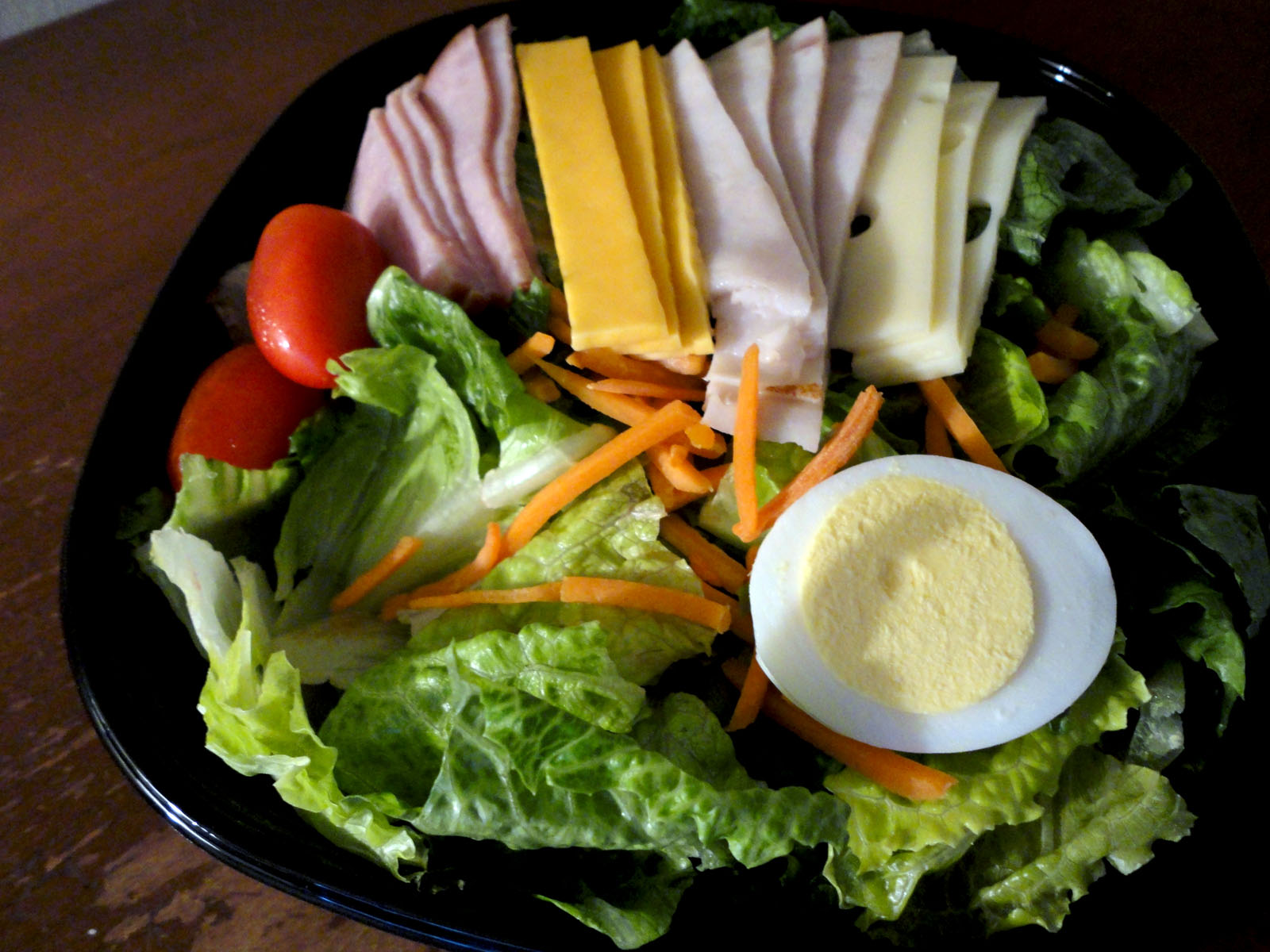 A supermarket-sold chef salad.